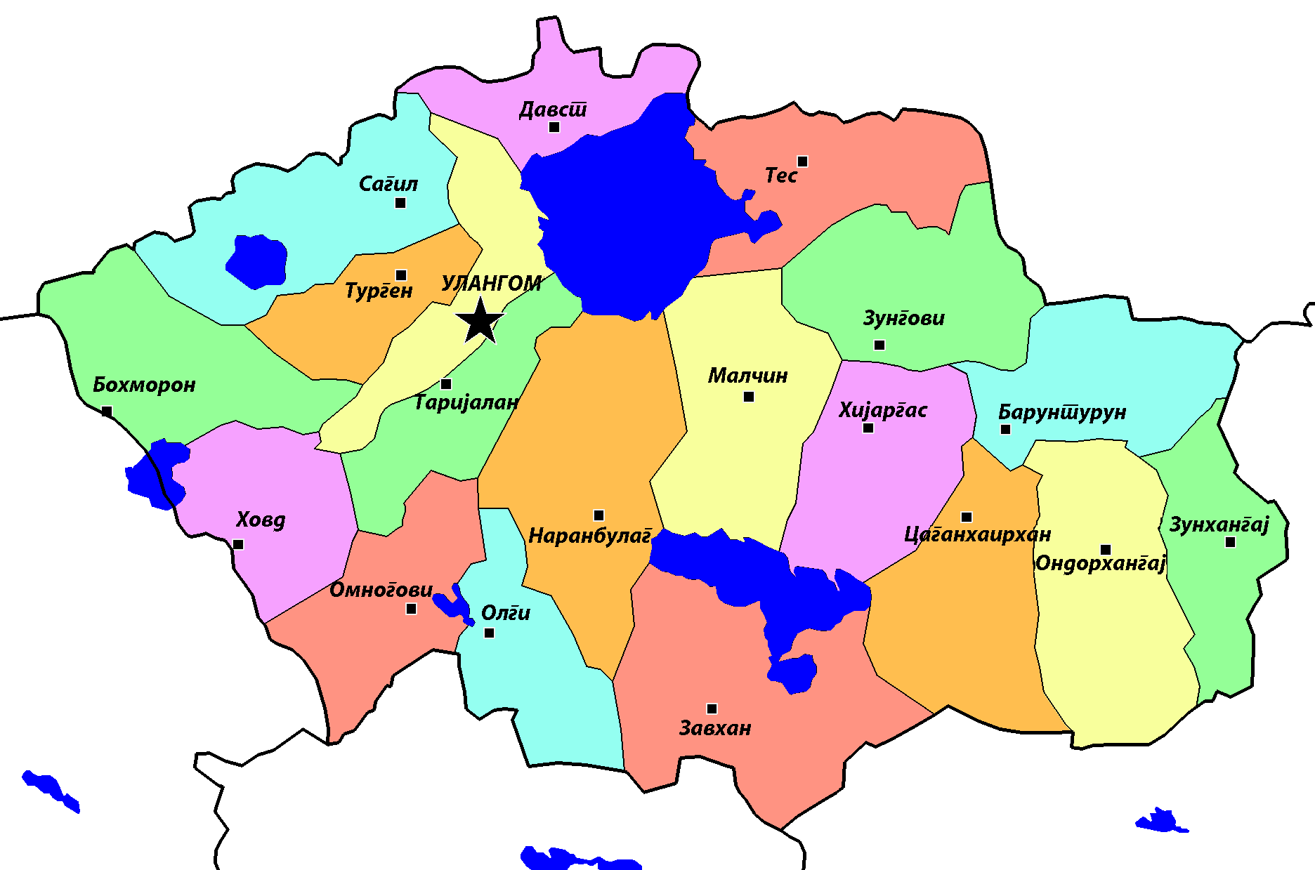 Translated map of Uvs Sum into Macedonian language